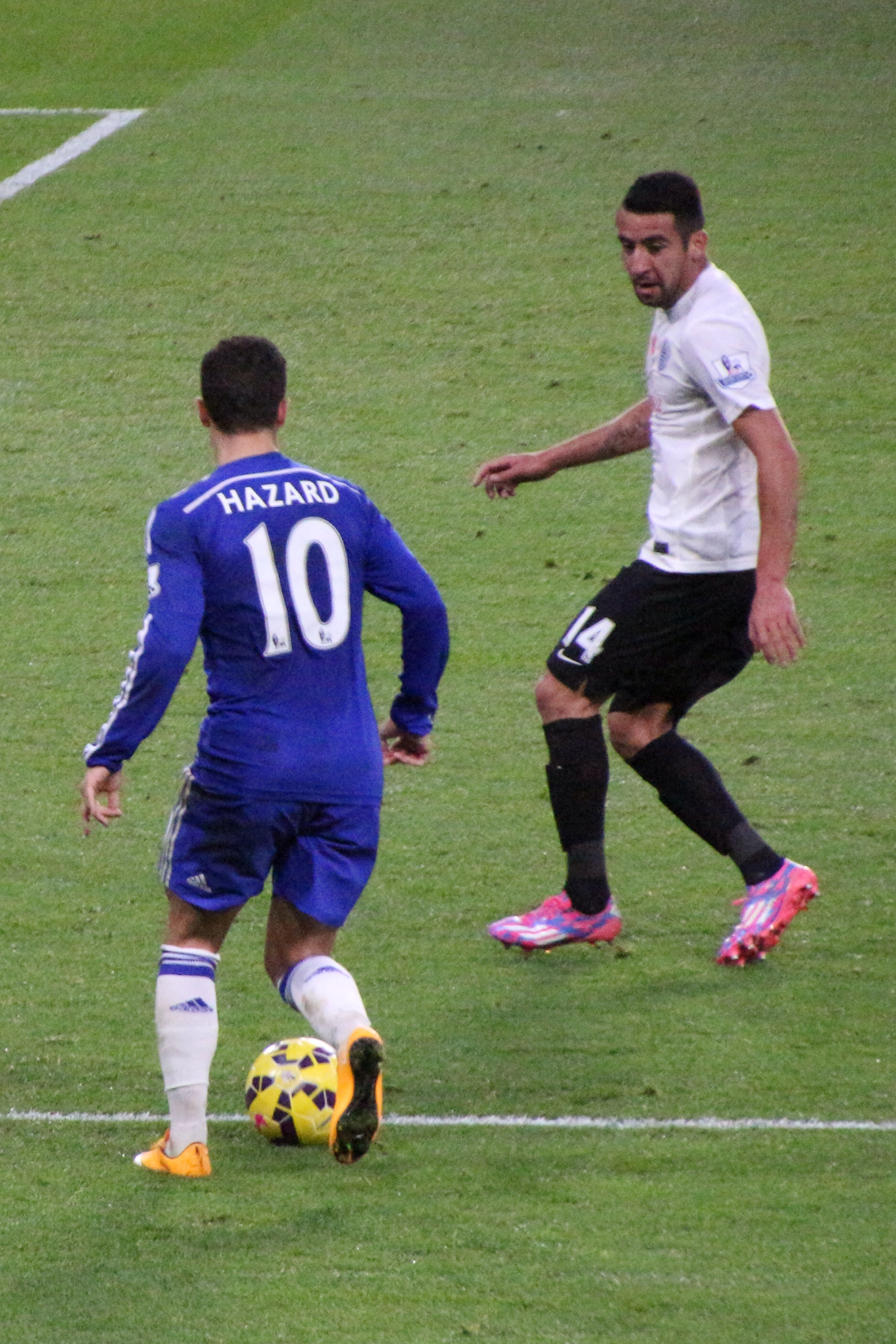 Chelsea 2 QPR 1 Premier League match between Chelsea and Queens Park Rangers at Stamford Bridge on 1 November 2014.